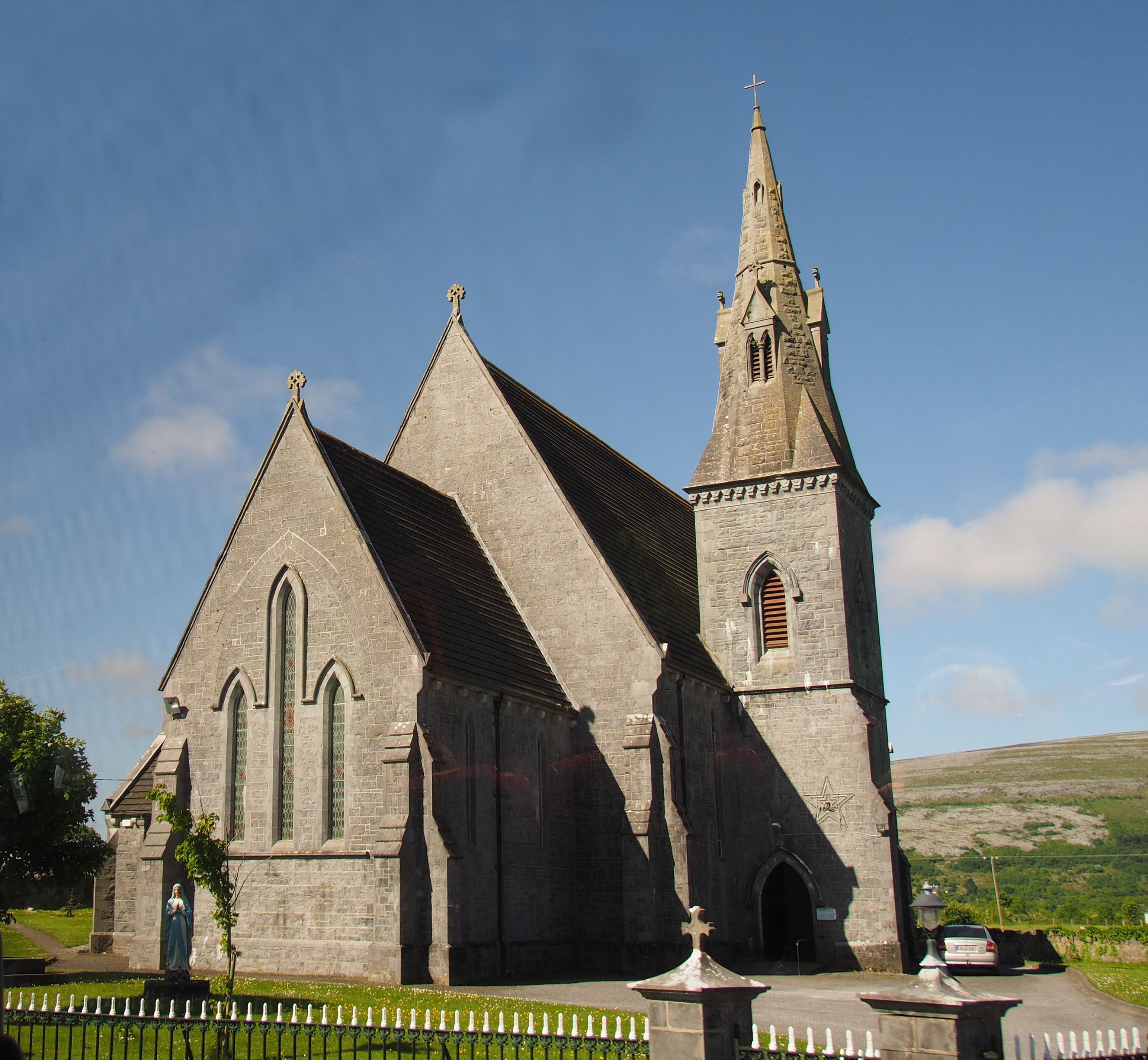 Church of St John, Ballyvaghan County Clare, Ireland